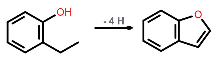 Benzofuran synthesis by ethyl-toluol reduction